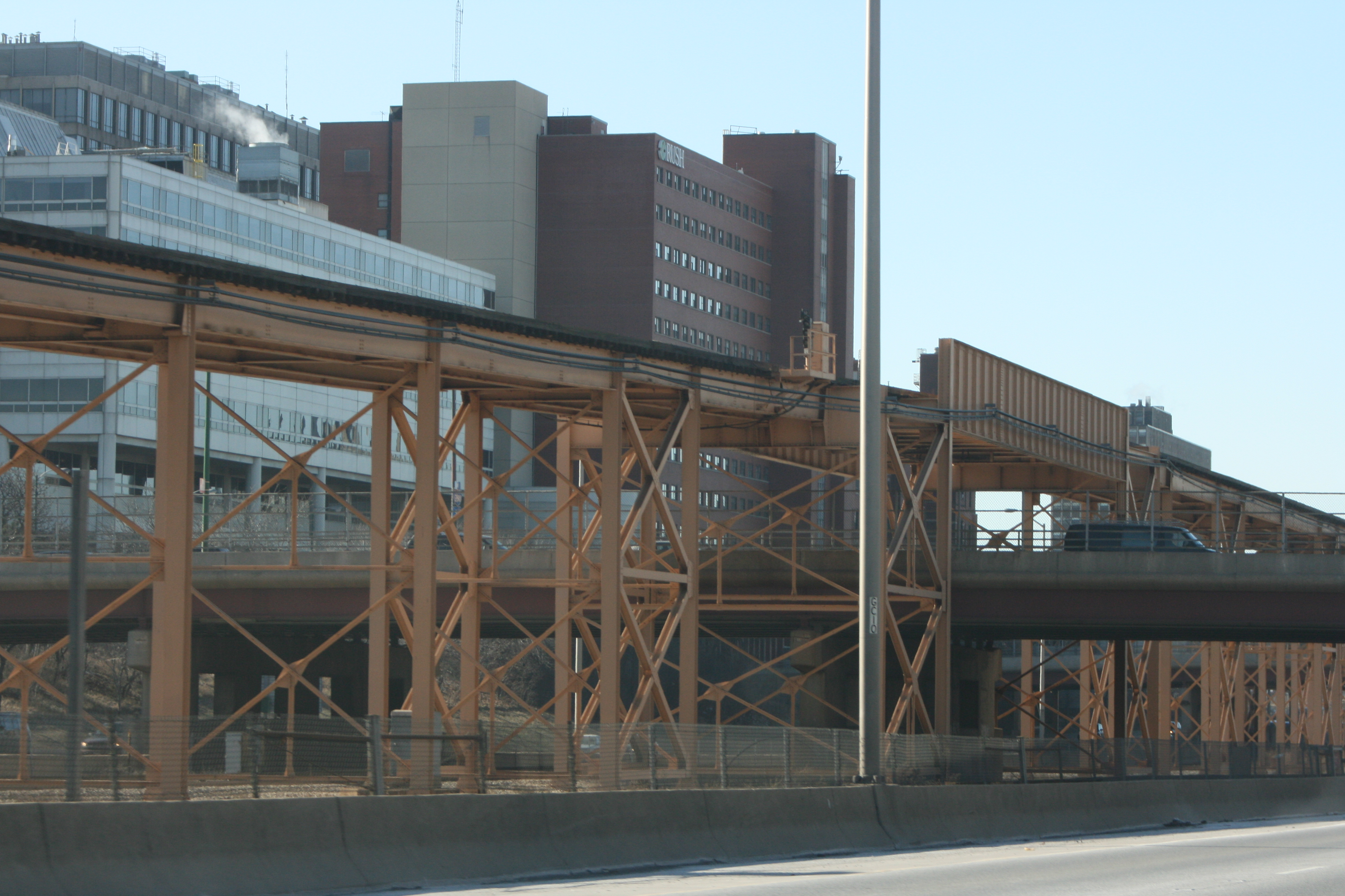 The elevated Chicago 'L' tracks leading to the Pink Line (Chicago Transit Authority), formerly the Douglas (54th/Cermak) Branch of the Blue Line. branch off of the Congress (Forest Park) branch of the Blue Line.